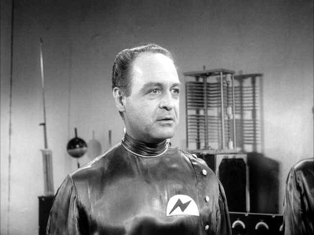 Film: Plan 9 from Outer Space (1959) Director: Ed Wood, Jr. Actor Portrayed: Dudley Manlove